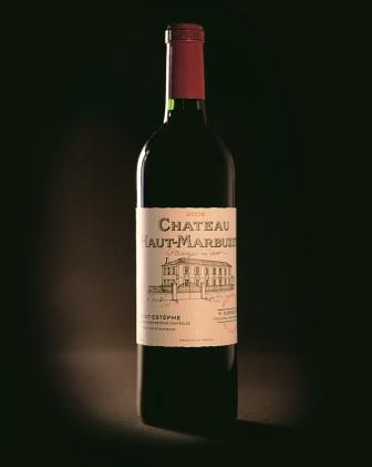 Picture of a Haut-Marbuzet bottle from vintage 2008.